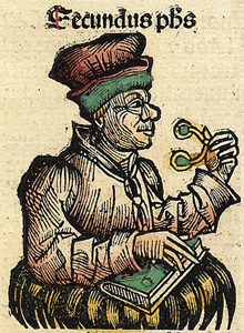 Illustration from the Nuremberg Chronicle